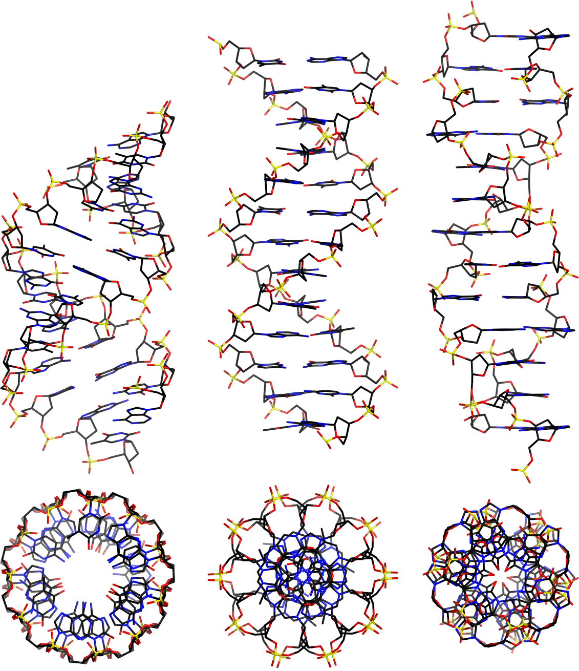 A-DNA, B-DNA, and Z-DNA conformations of DNA. 12 base-pair steps composed by 13 base-pairs are show in a side view and top view. The symmetrical features of the double-helix are highlighted with the top view panel.